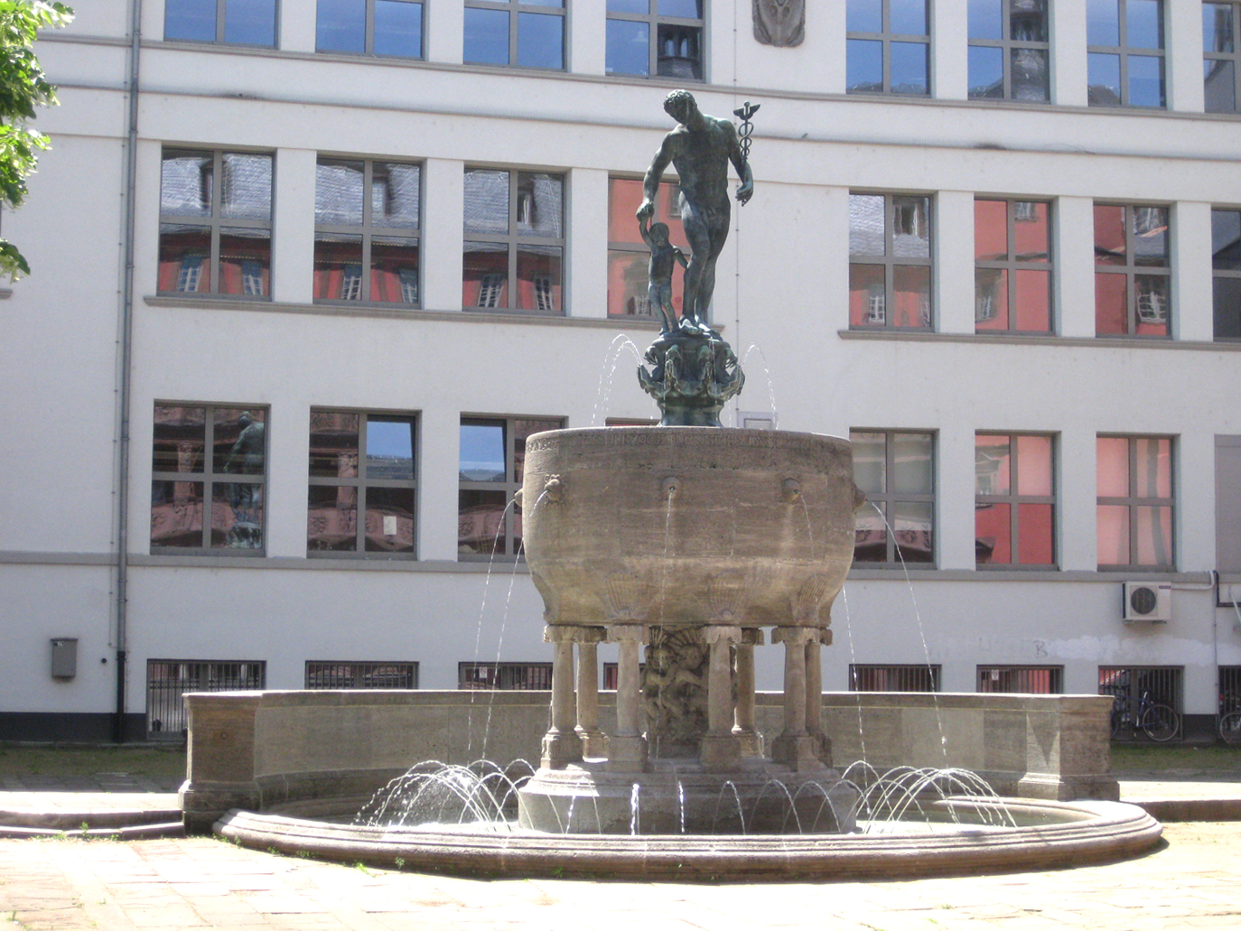 Ludo Mayer Fountain in Offenbach, designed by Heinrich Jobst